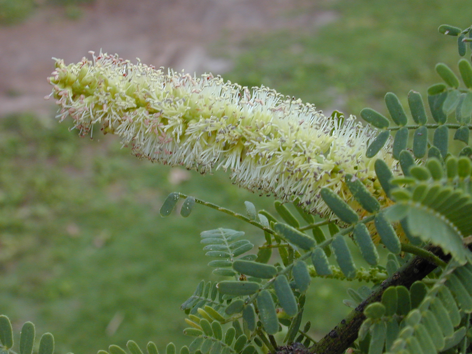 Prosopis pallida (flowers). Location: Maui, Kanaha Beach